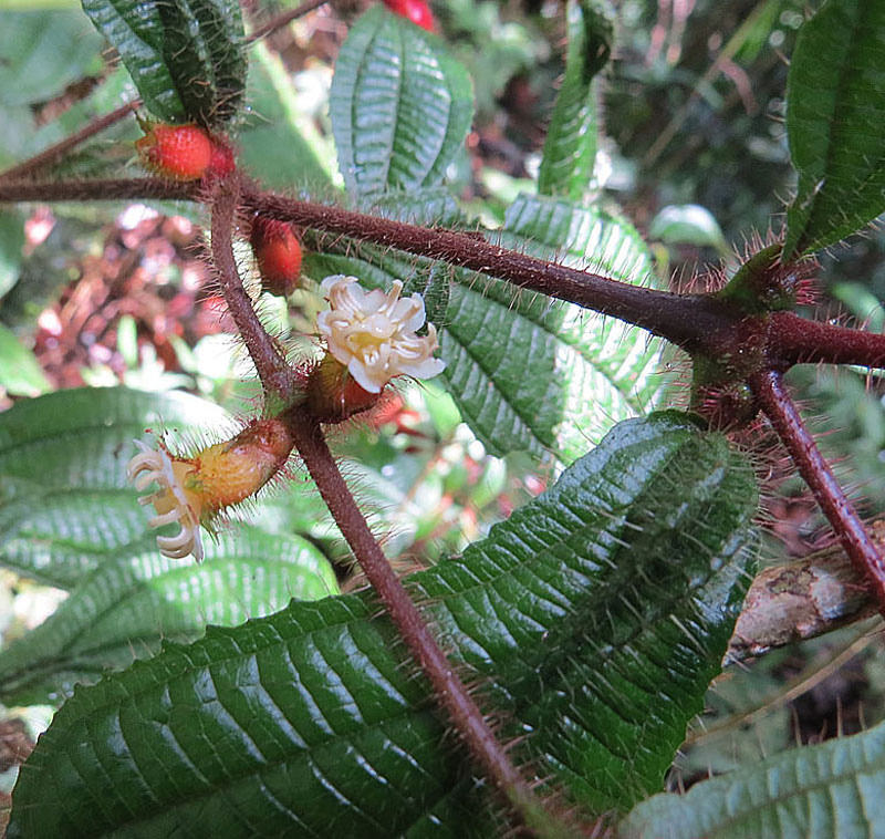 A hairy melastome with leaf-base and petiol domatia that feed protective ants. Native to tropical South America. In context at